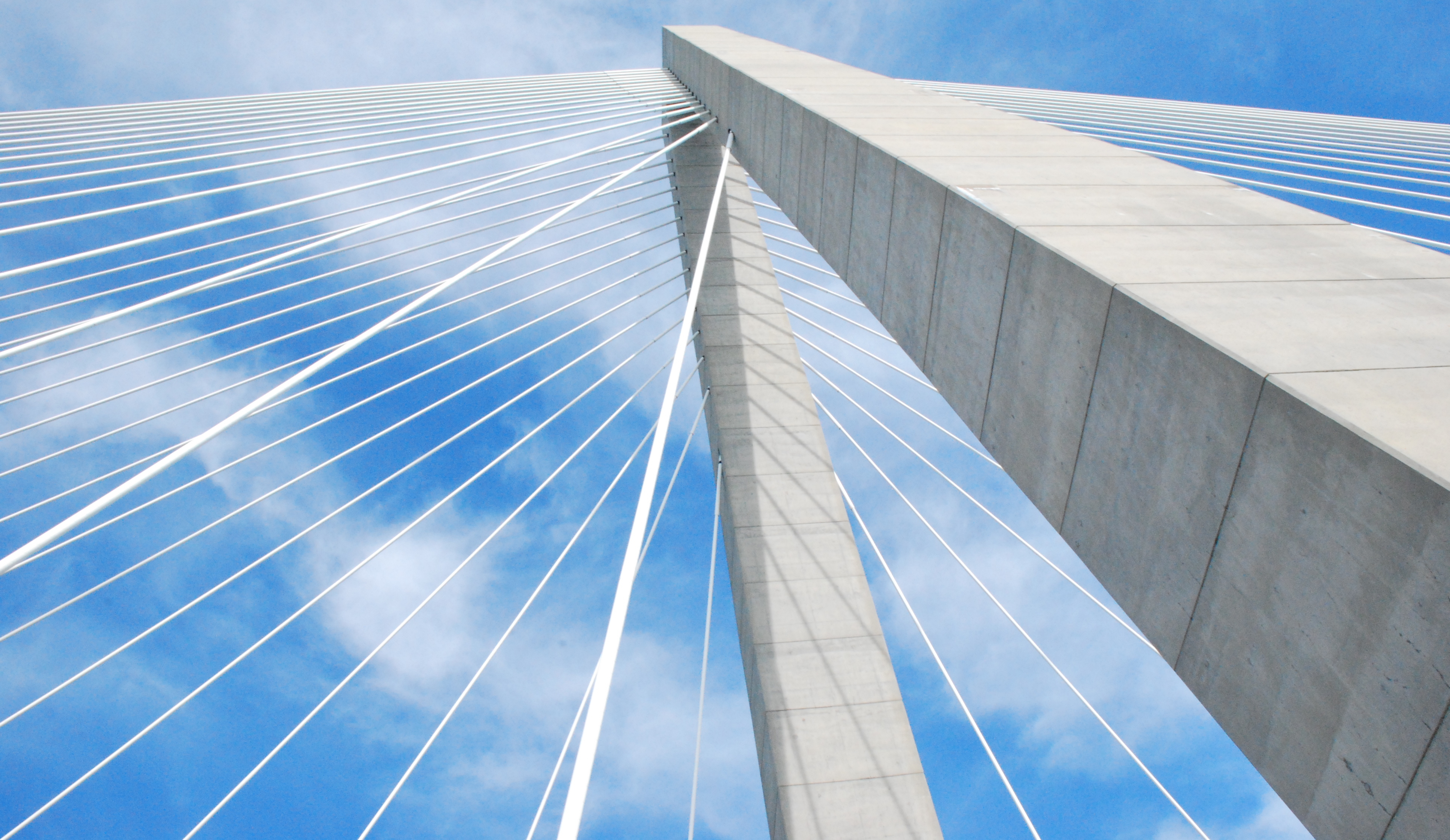 This is a photo of one of the Arthur Ravenel Jr. Bridge's diamond-shaped towers